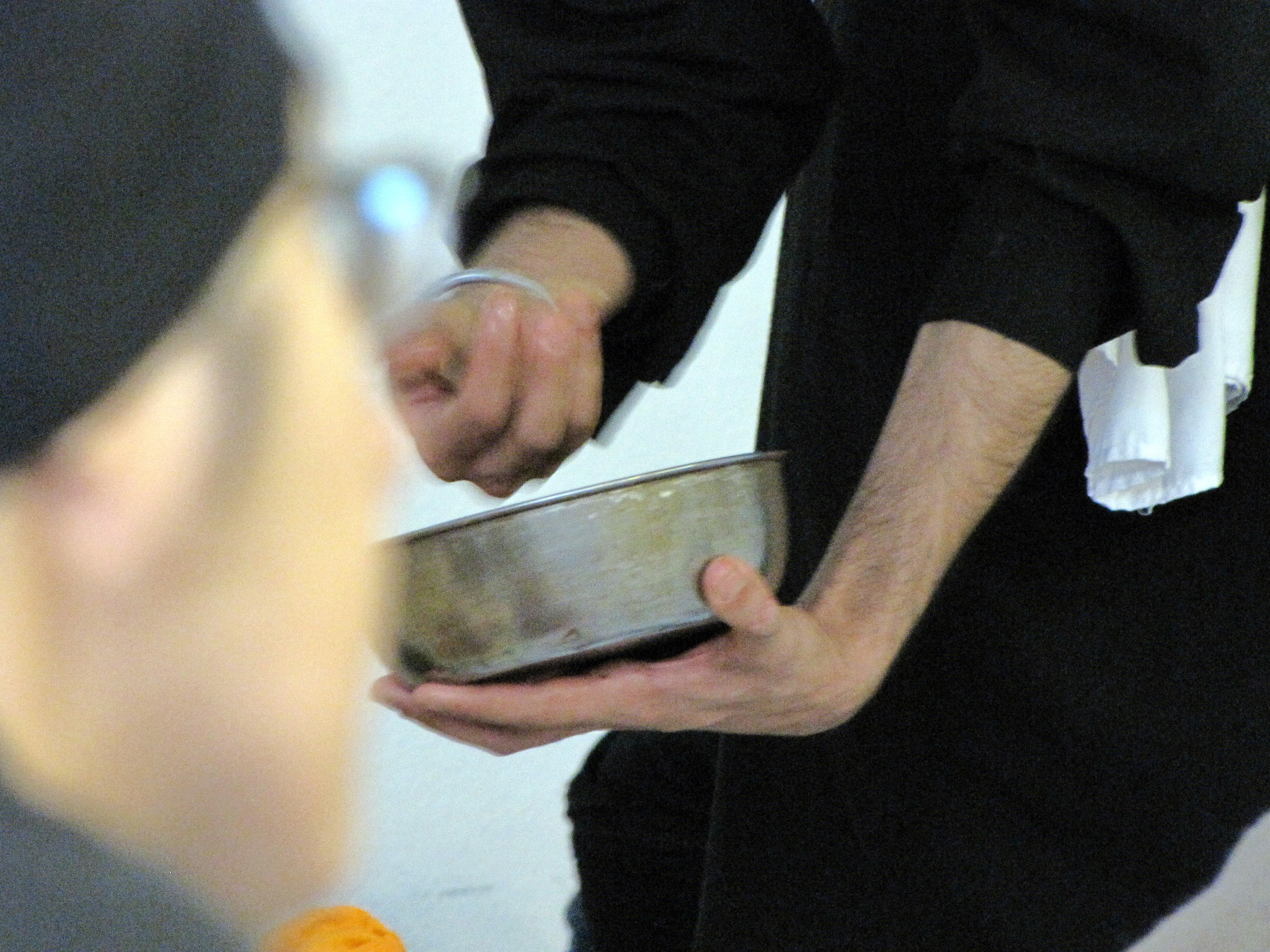 At a keertan session in Los Angeles, a Sikh distributes prashad, blessed food, with his right hand, where he is also wearing a kara, the Sikh iron bangle.